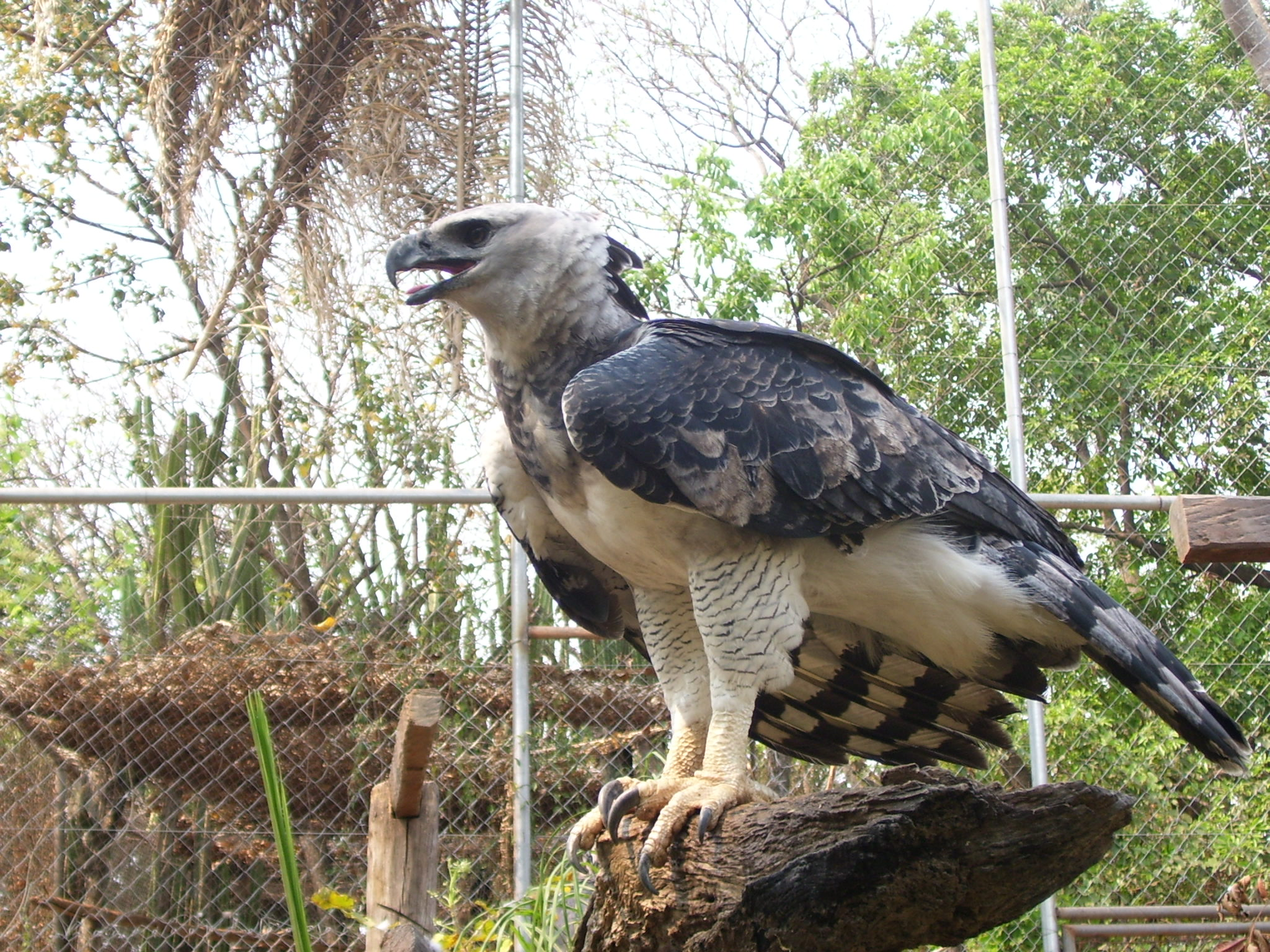 American Harpy Eagle (Harpia harpyja), in the zoo of Federal University of Mato Grosso, Cuiabá, Brazil.